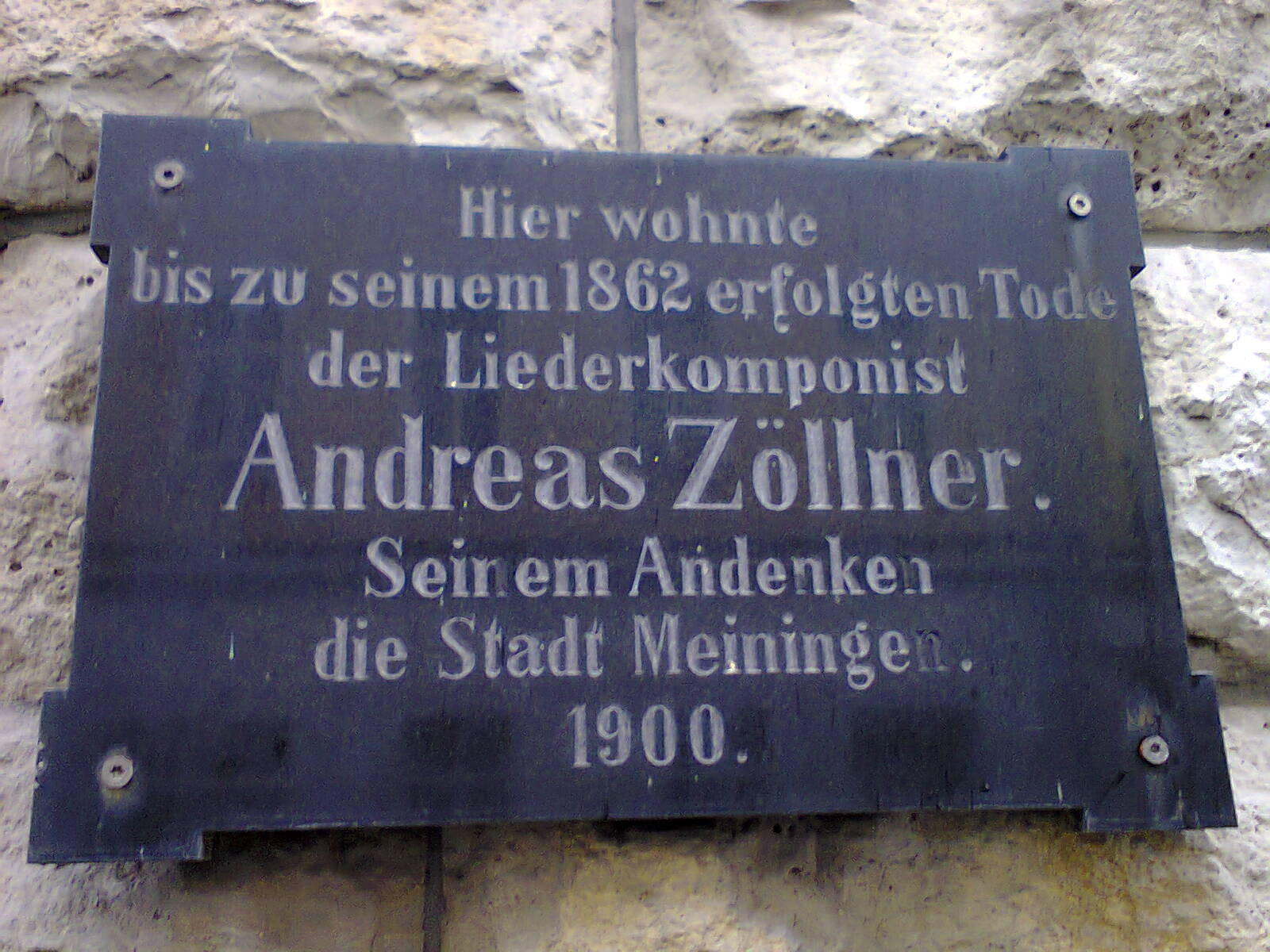 Andreas Zöllner commemorative plaque in Meiningen